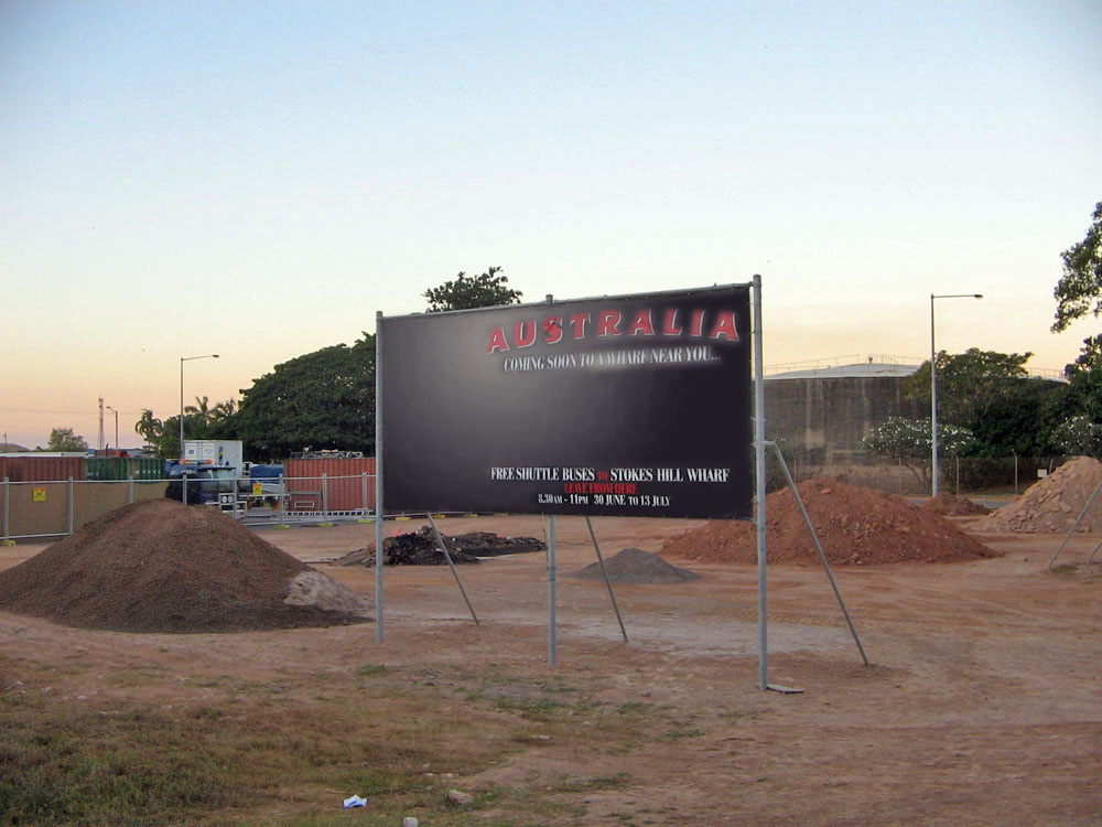 Australia filming. Darwin, Northern Territory. (NOTE: This image has been edited to remove possible "copyrighted" art from the billboard)